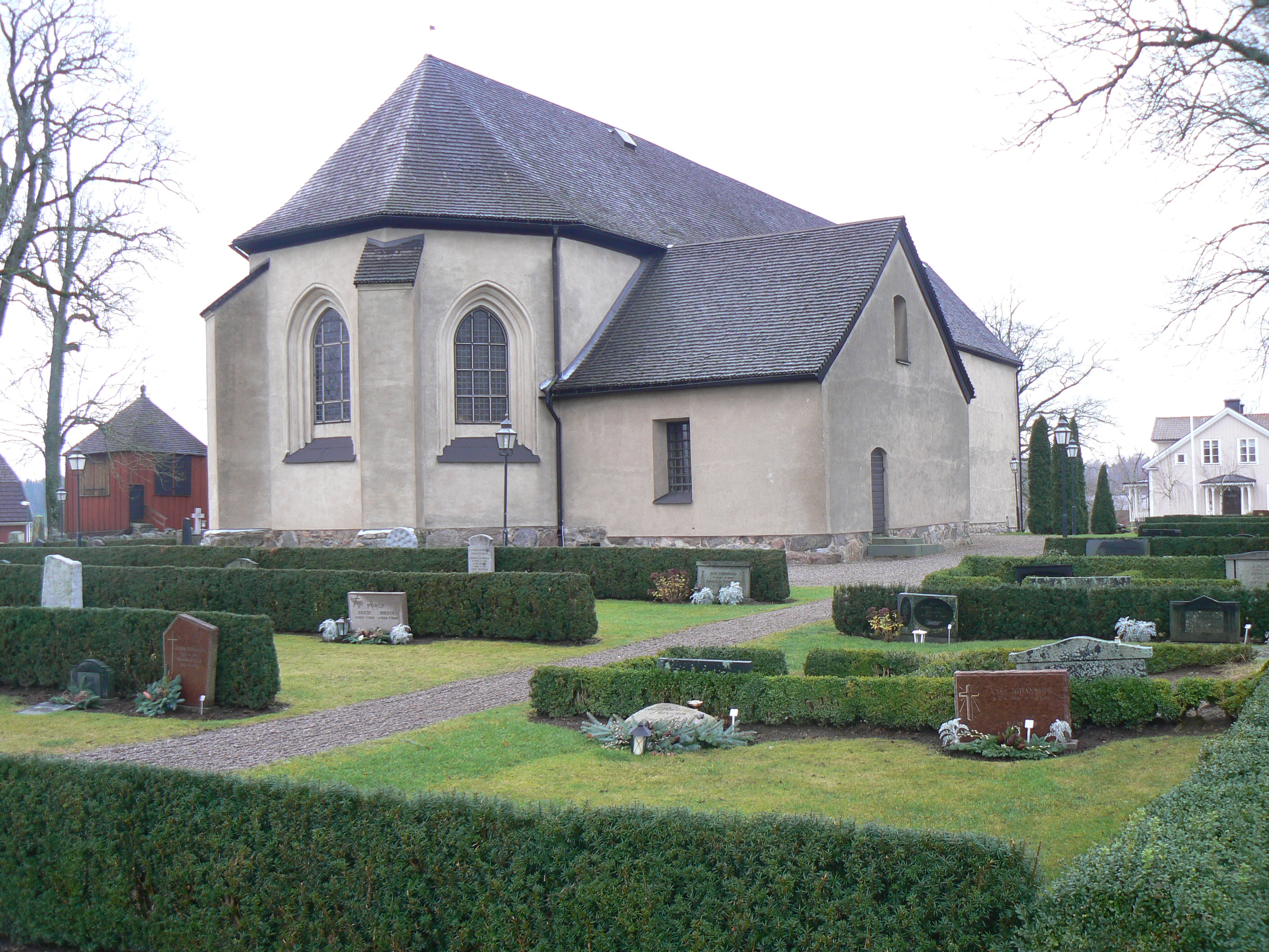 Askeby Church, Church of Sweden in Askeby Parish, Municipality of Linköping